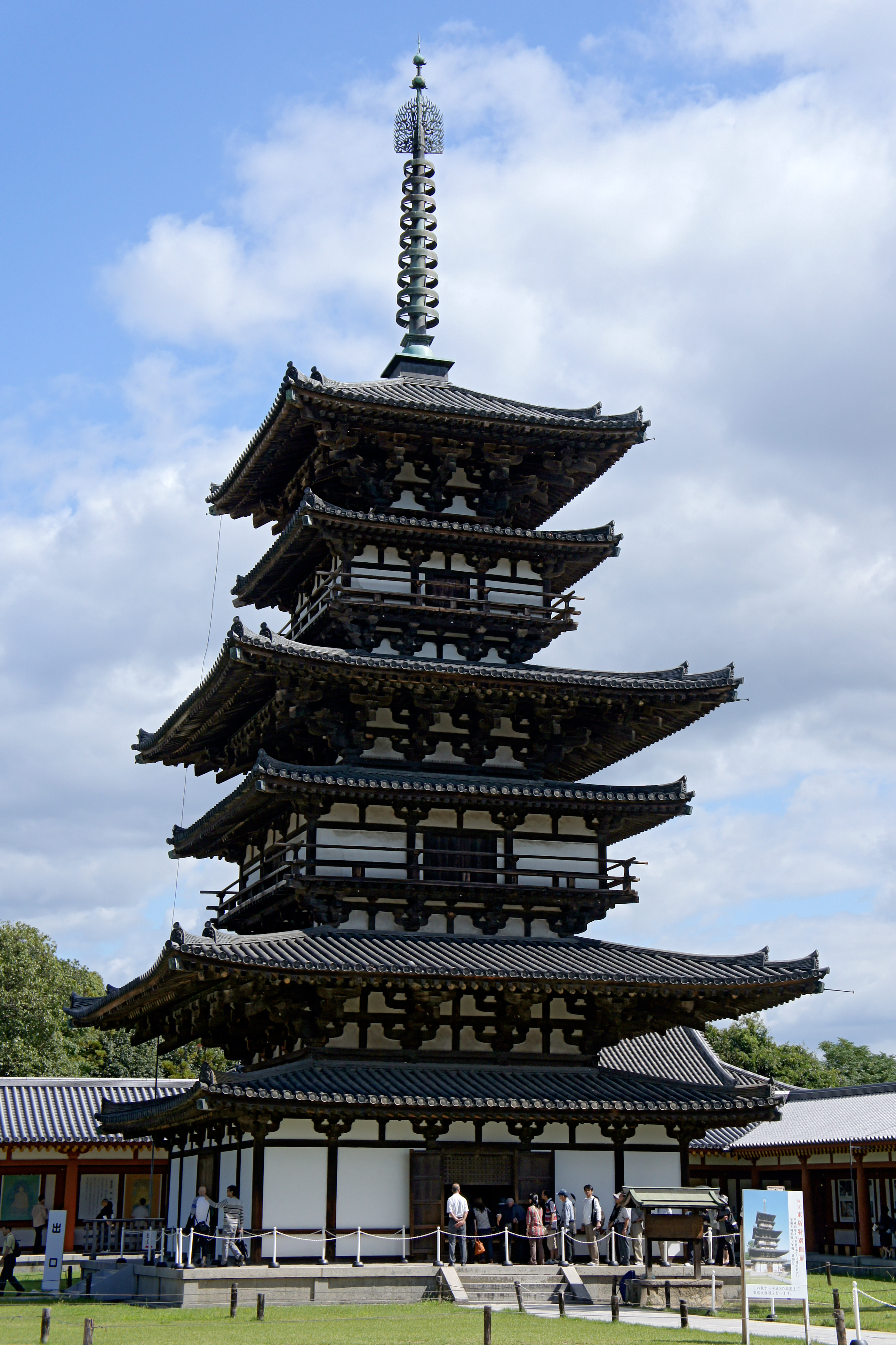 Yakushi-ji's East Pagoda is a Japan's National Treasure in Nara, Nara prefecture, Japan. It was built at the Nara period (AD 710 to 794). Yakushi-ji was registered as part of the UNESCO World Heritage Site "Historic Monuments of Ancient Nara".